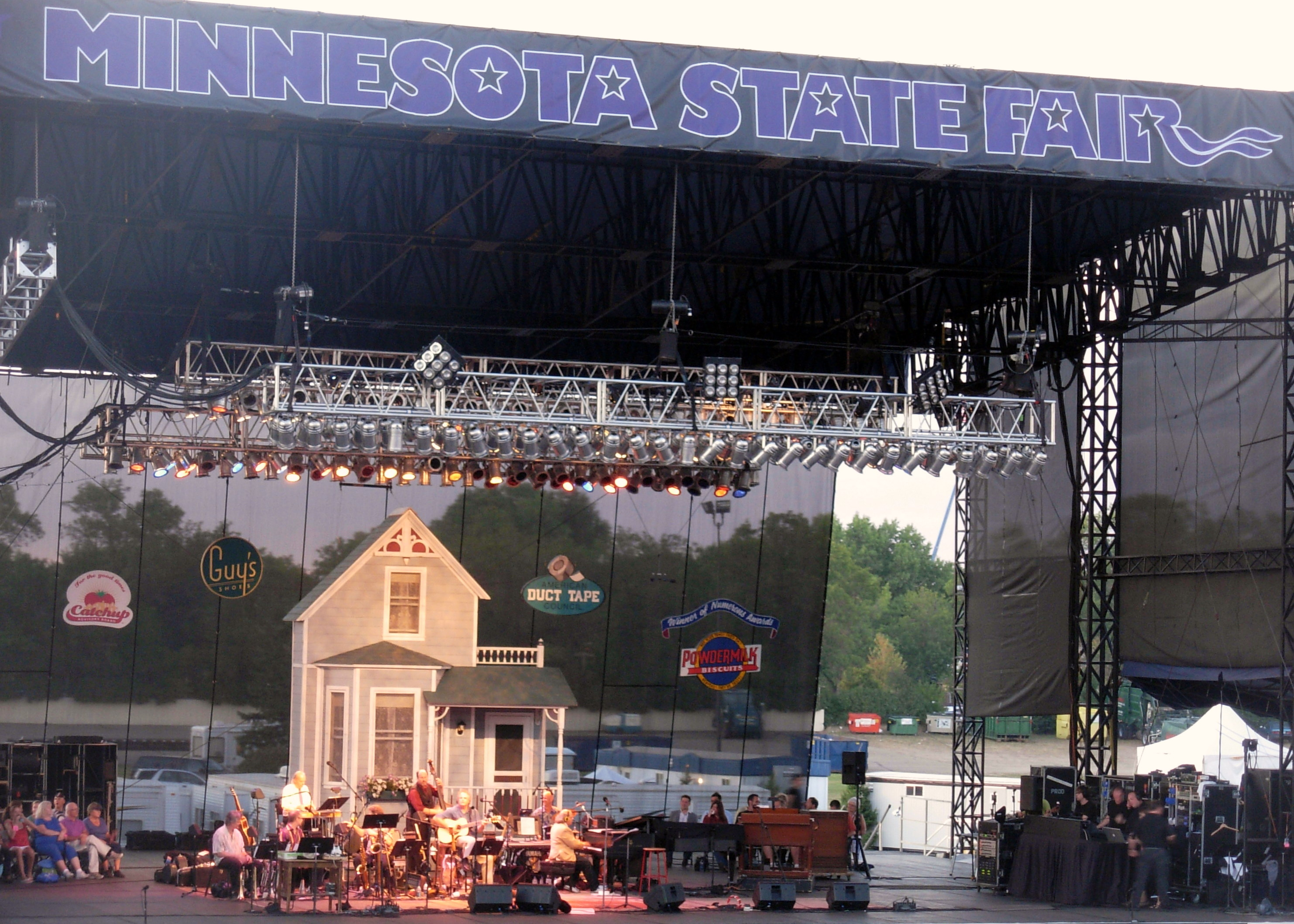 A Prairie Home Companion live at the Minnesota State Fair grandstand.